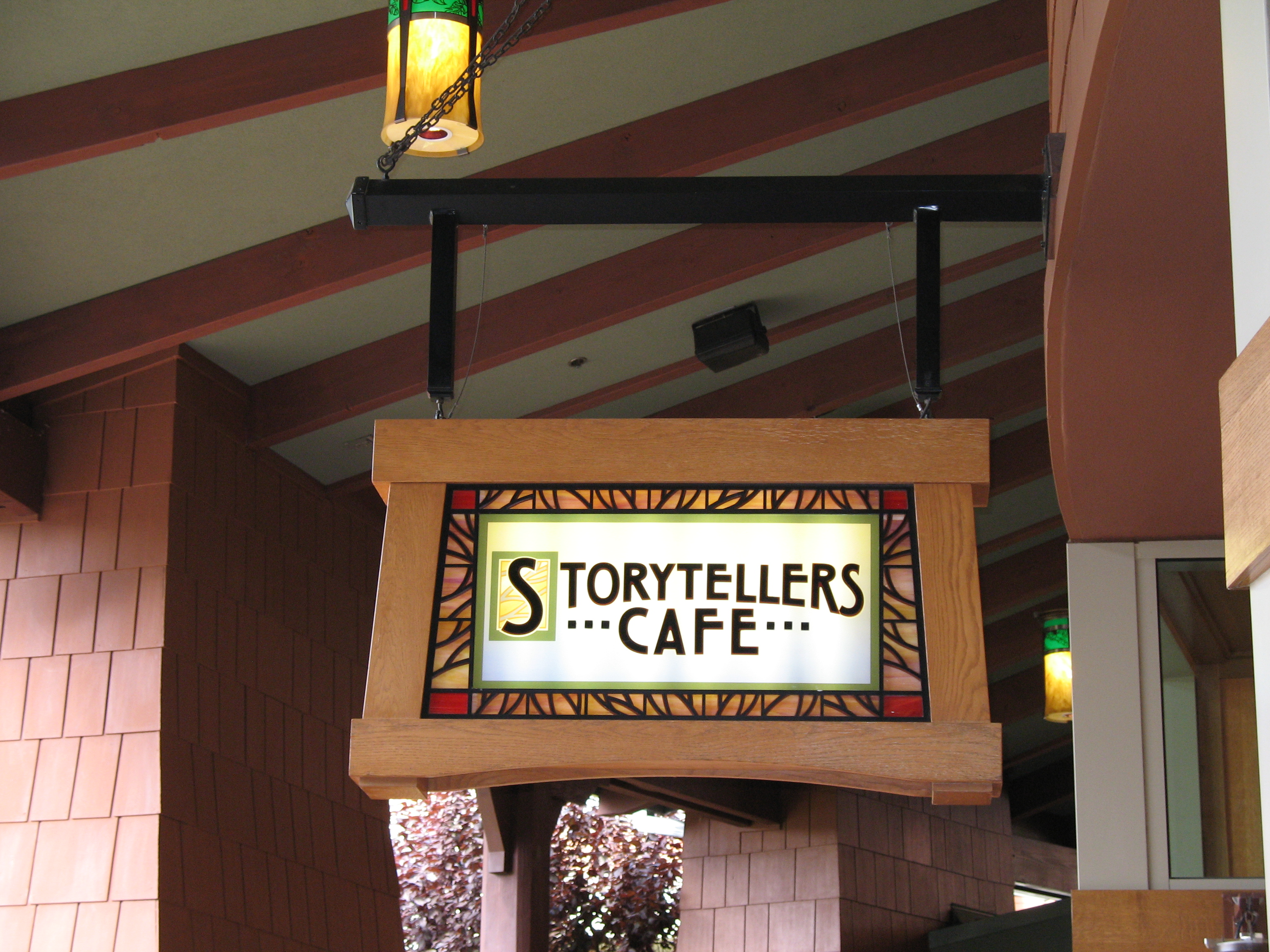 This is a photo of the Stoyteller's Cafe located in Disneyland's Grand Californian Hotel.